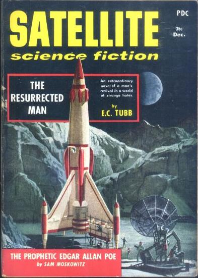 Cover, Satellite Science Fiction, December 1958